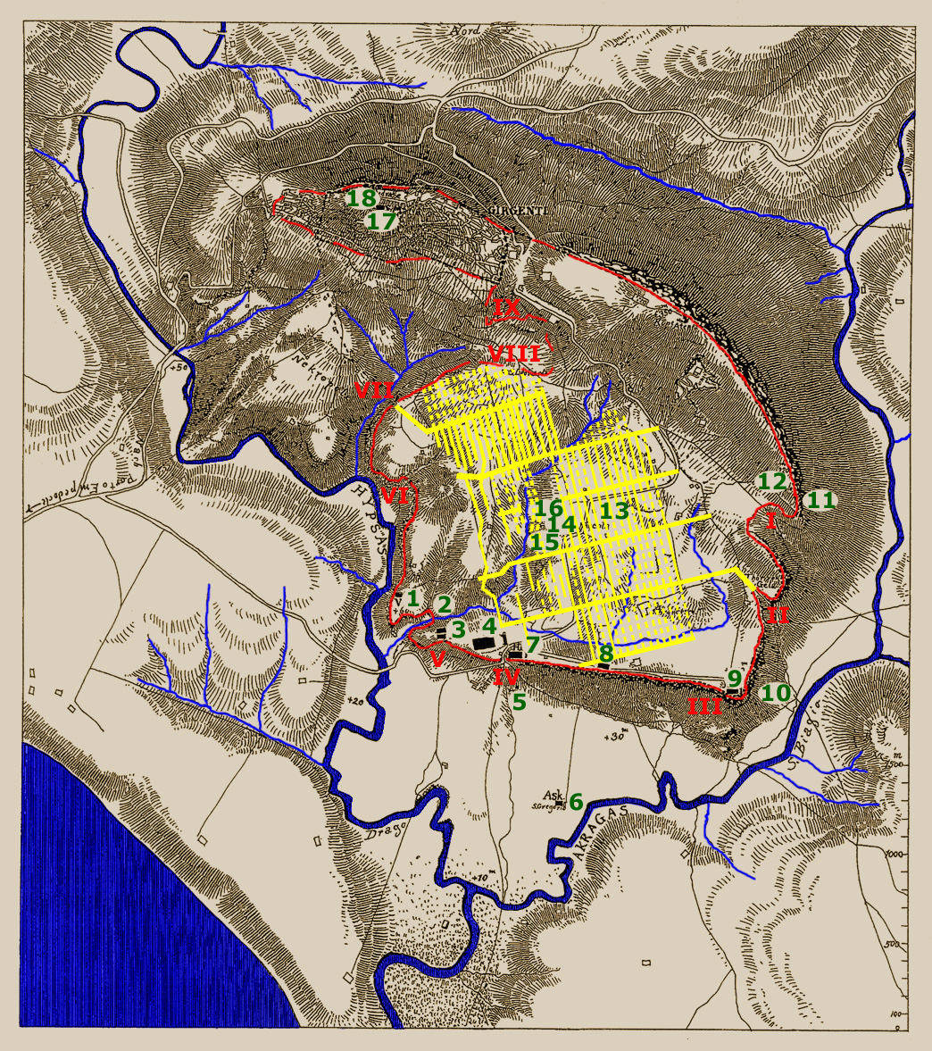 Sitemap of the archeological sites